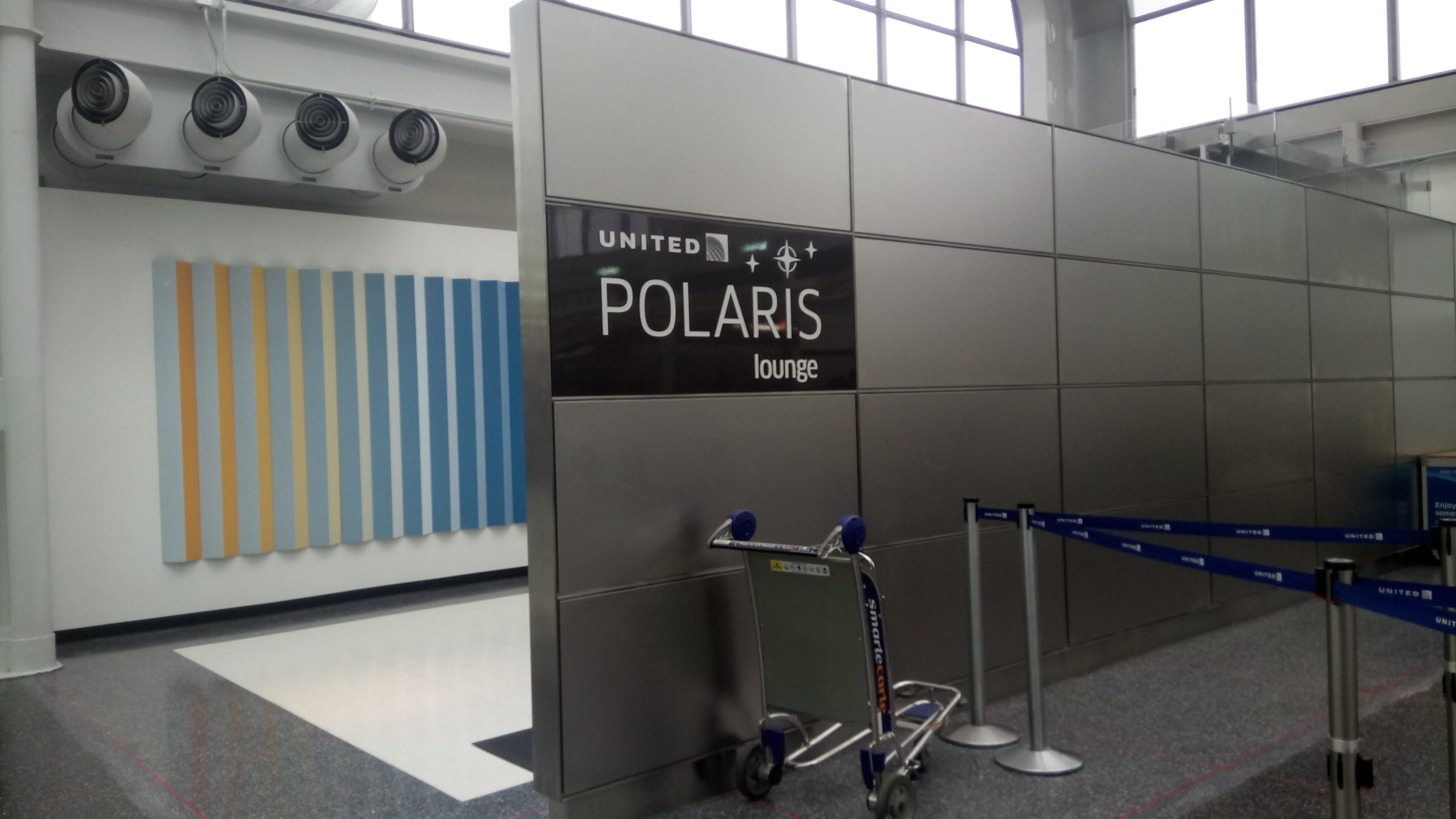 Polaris Lounge. Terminal 1, Concourse C, OHare